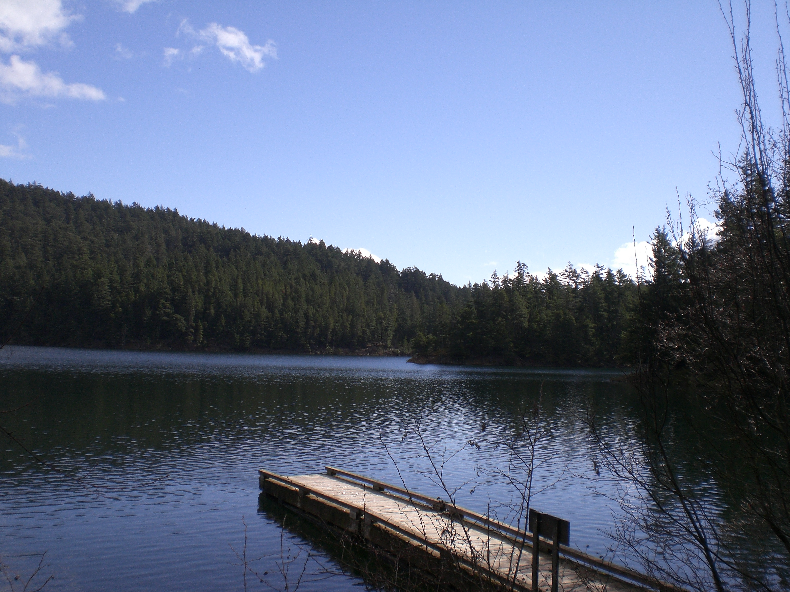 Mountain Lake in Moran State Park, Orcas Island, Washington, United States of America. Photo taken March 14, 2007.